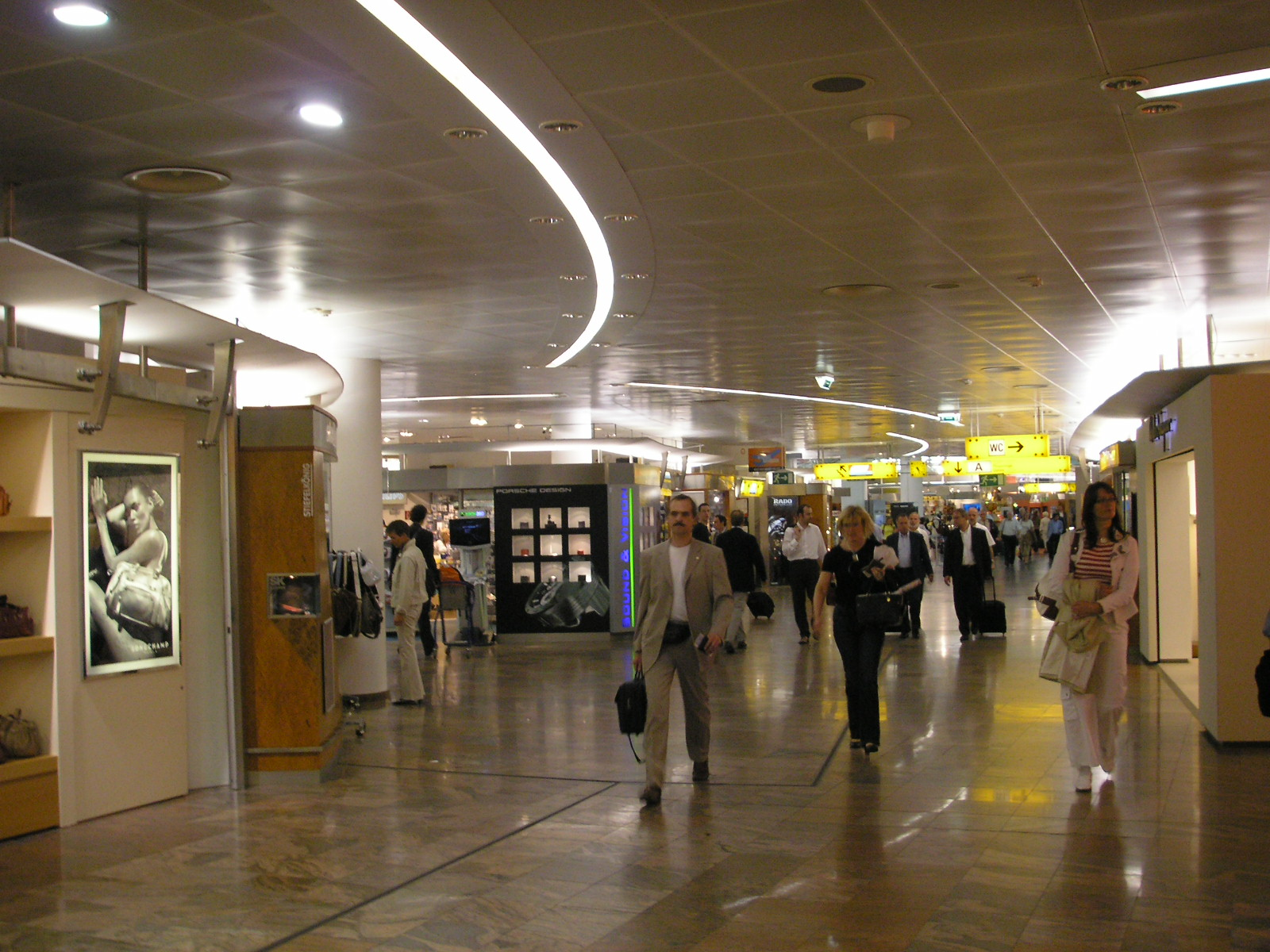 Duty-free shopping area in Vienna International Airport.